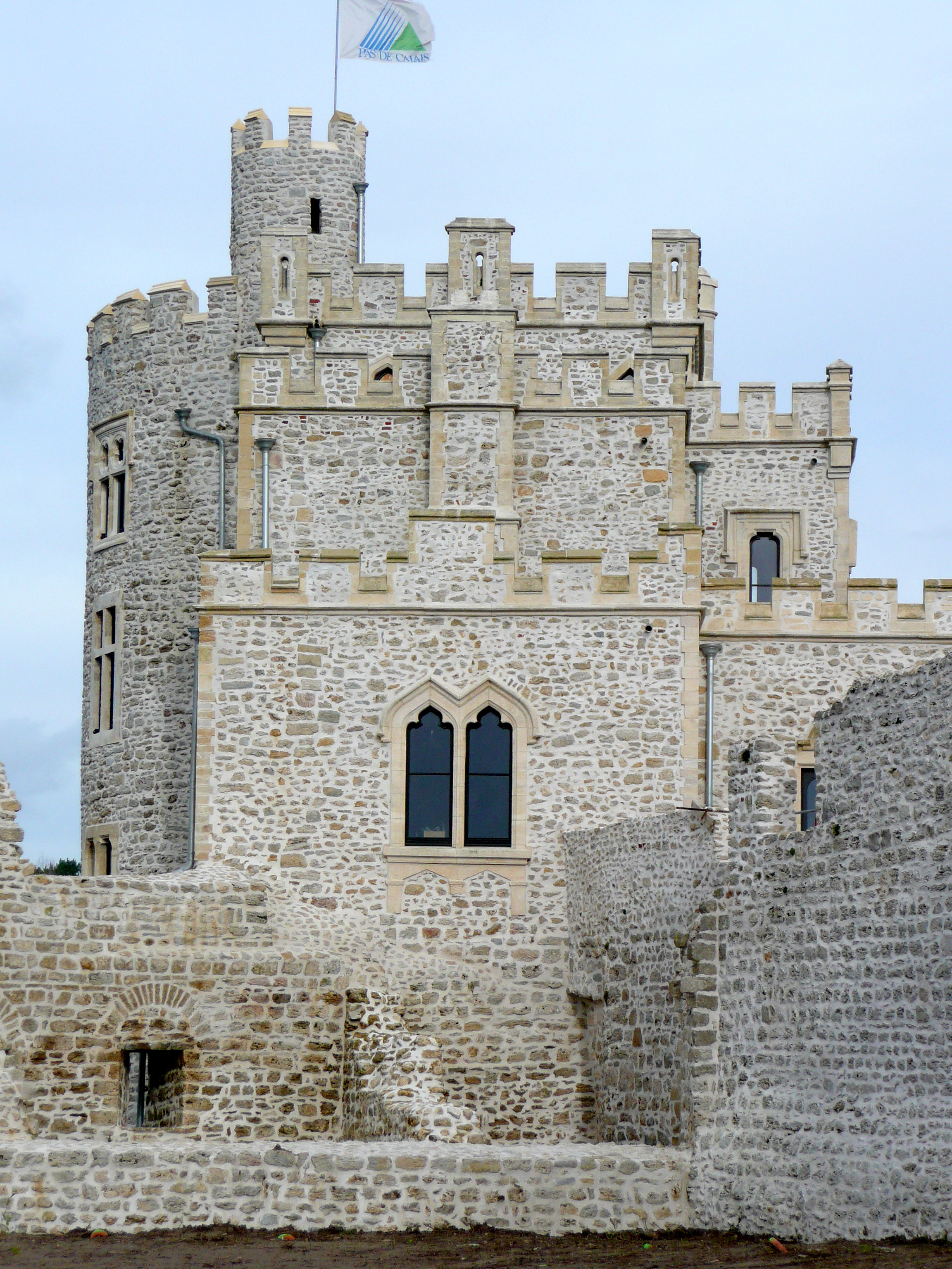 Hardelot Castle, Condette, France